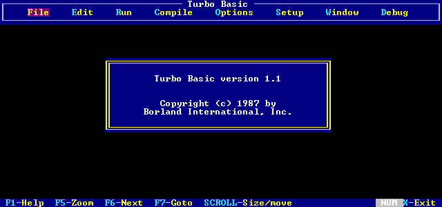 Screenshot of Turbo Basic ver. 1.1 startup screen.